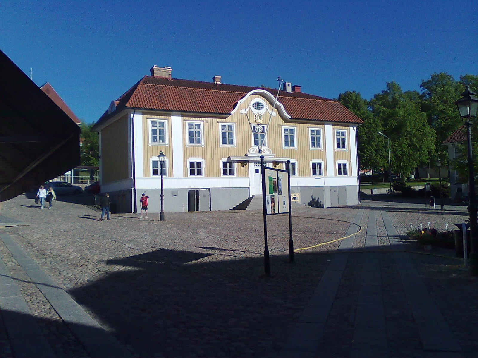 The town hall of Ulricehamn.